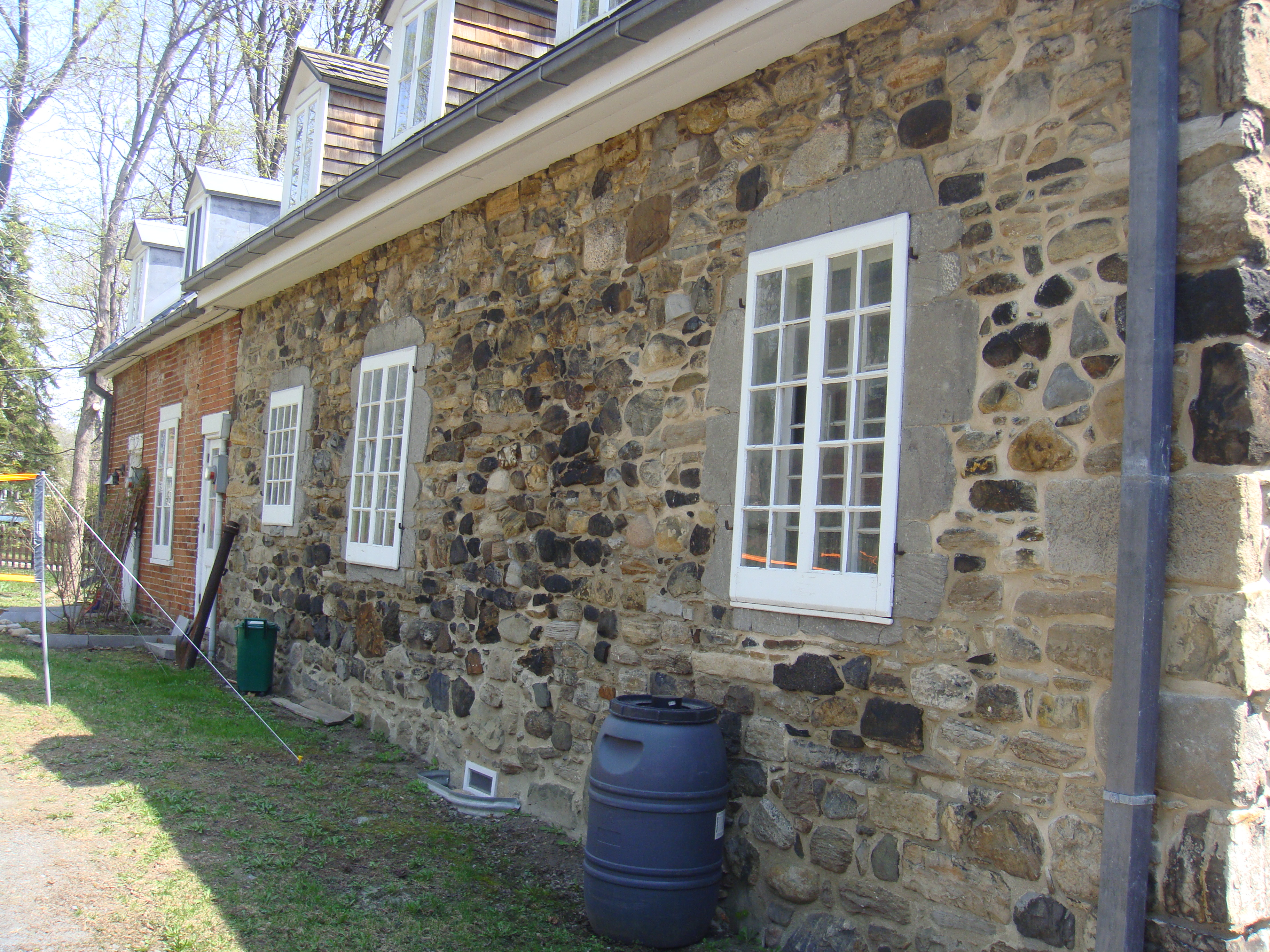 Hurtubise House in May 2015